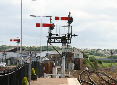 Lower resoloution: Lower Quadrant Signals on mainline Penzance Line.